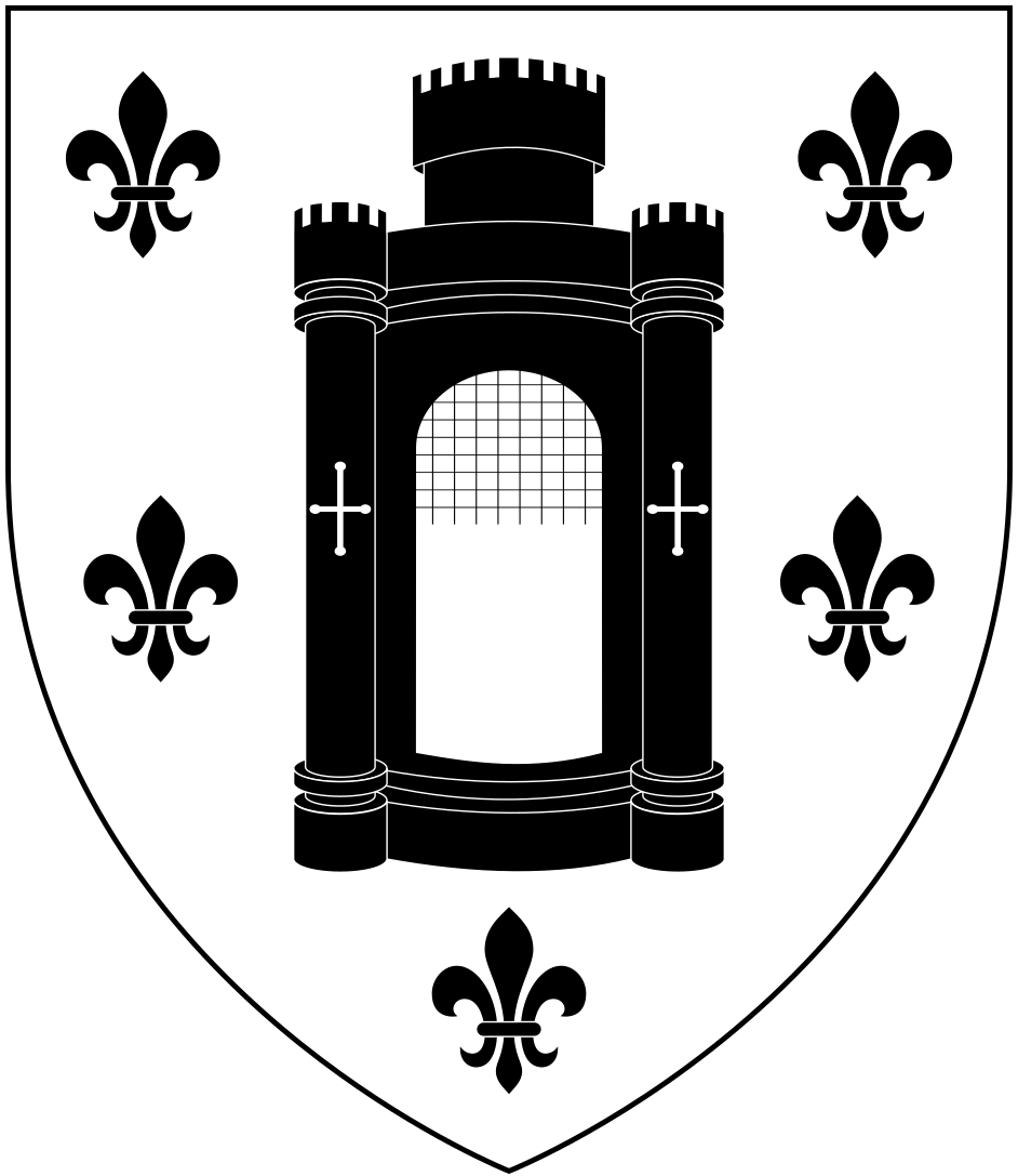 Arms of Somaster of Painsford in the parish of Ashprington, Devon: Argent, a castle triple-towered within an orle of fleurs-de-lys sable (Vivian, Lt.Col. J.L., (Ed.) The Visitations of the County of Devon: Comprising the Heralds' Visitations of 1531, 1564 & 1620, Exeter, 1895, p.695)